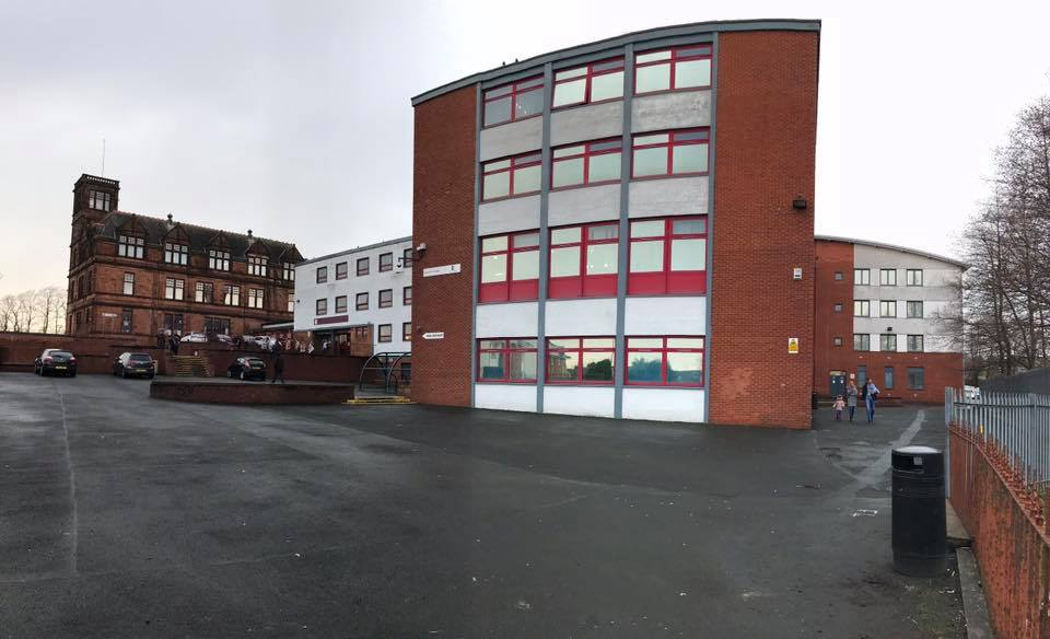 Kilmarnock Academy, Kilmarnock, February 2018, two months prior to closure.